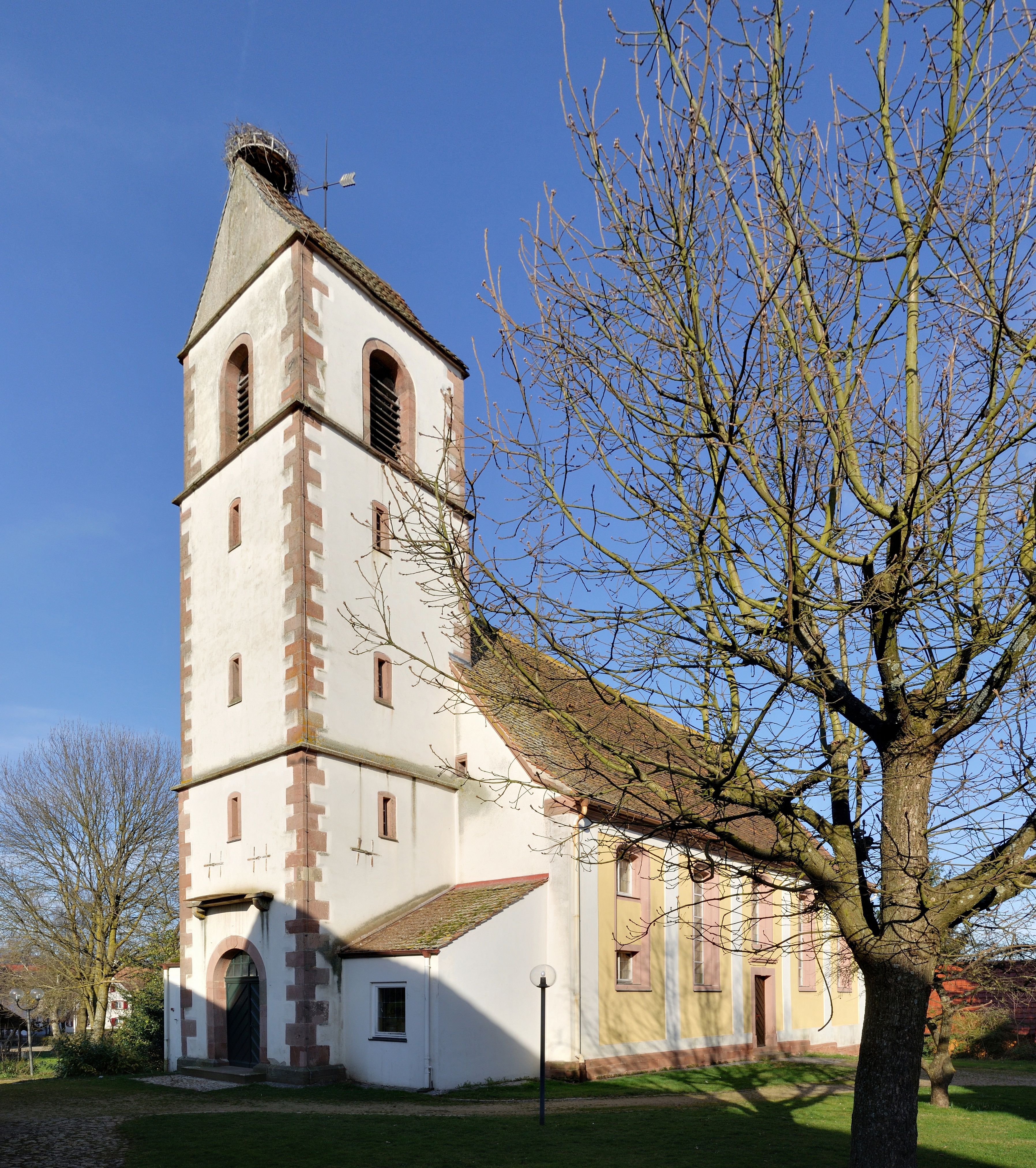 Schallbach: Protestant Church